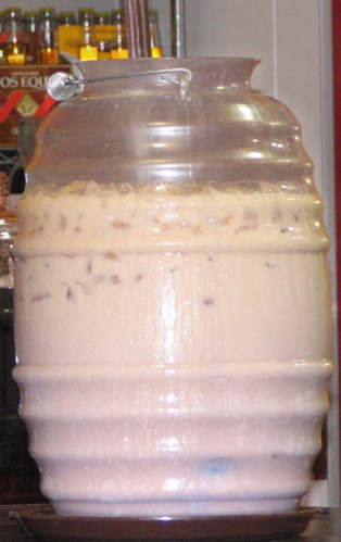 Photograph by ManekiNeko and released to the public domain. Two large jar of horchata in a Mexican restaurant in Seattle, Washington, USA. Restaurant employees serve the drinks by ladling them from the jar into glasses.